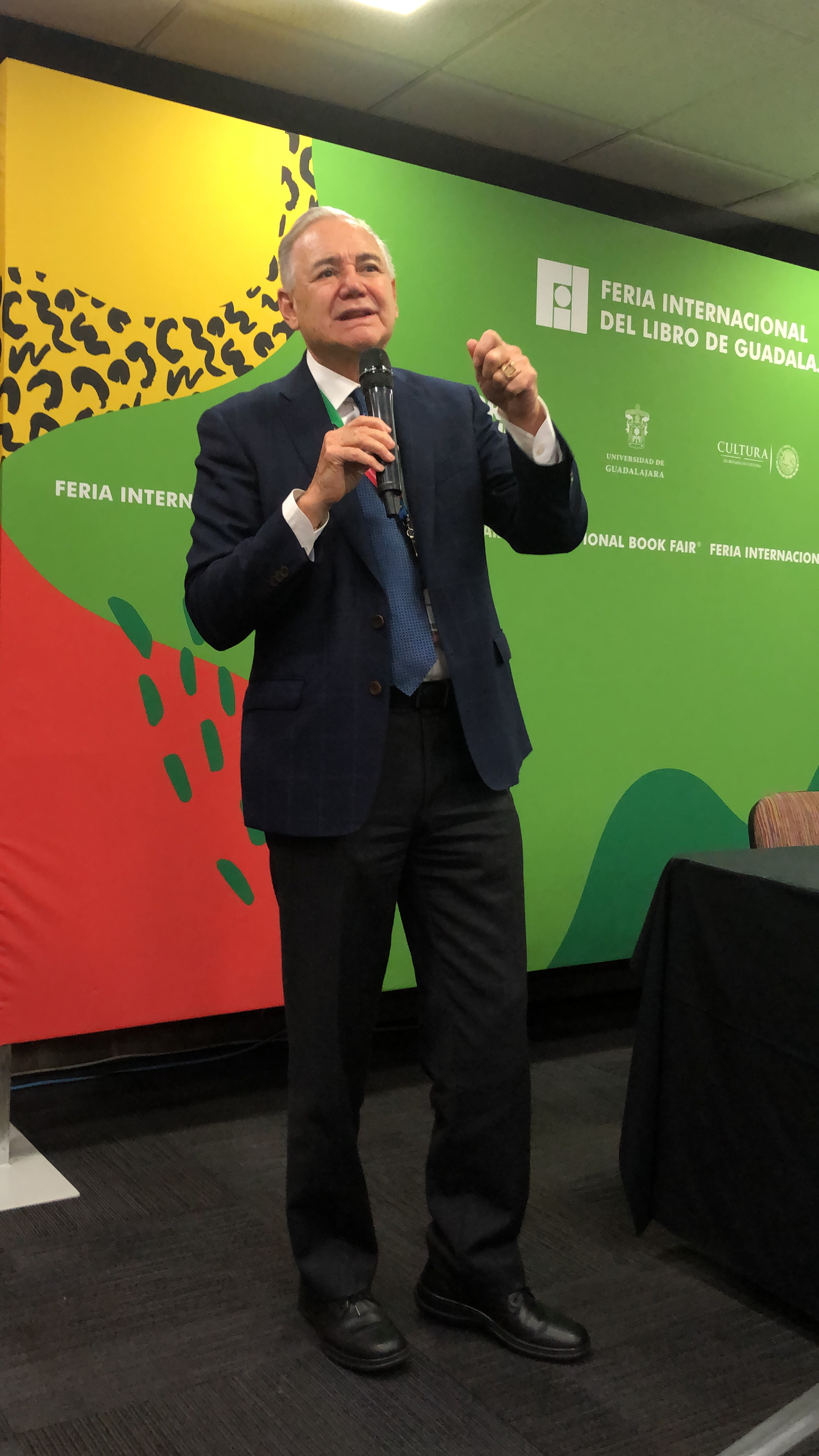 Raul Salinas de Gortari at Feria Internacional del Libro de Guadalajara 2018